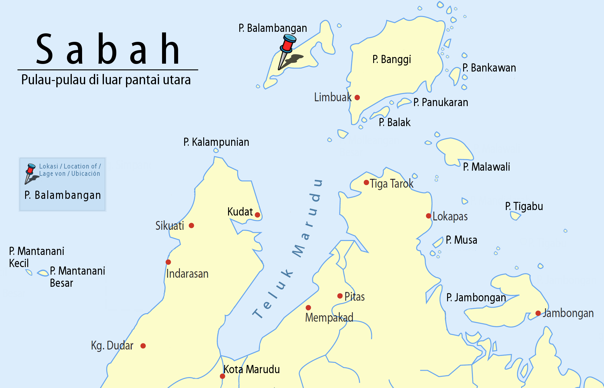 Sabah: Scheme of Islands off the northern coast / Pulau Balamba